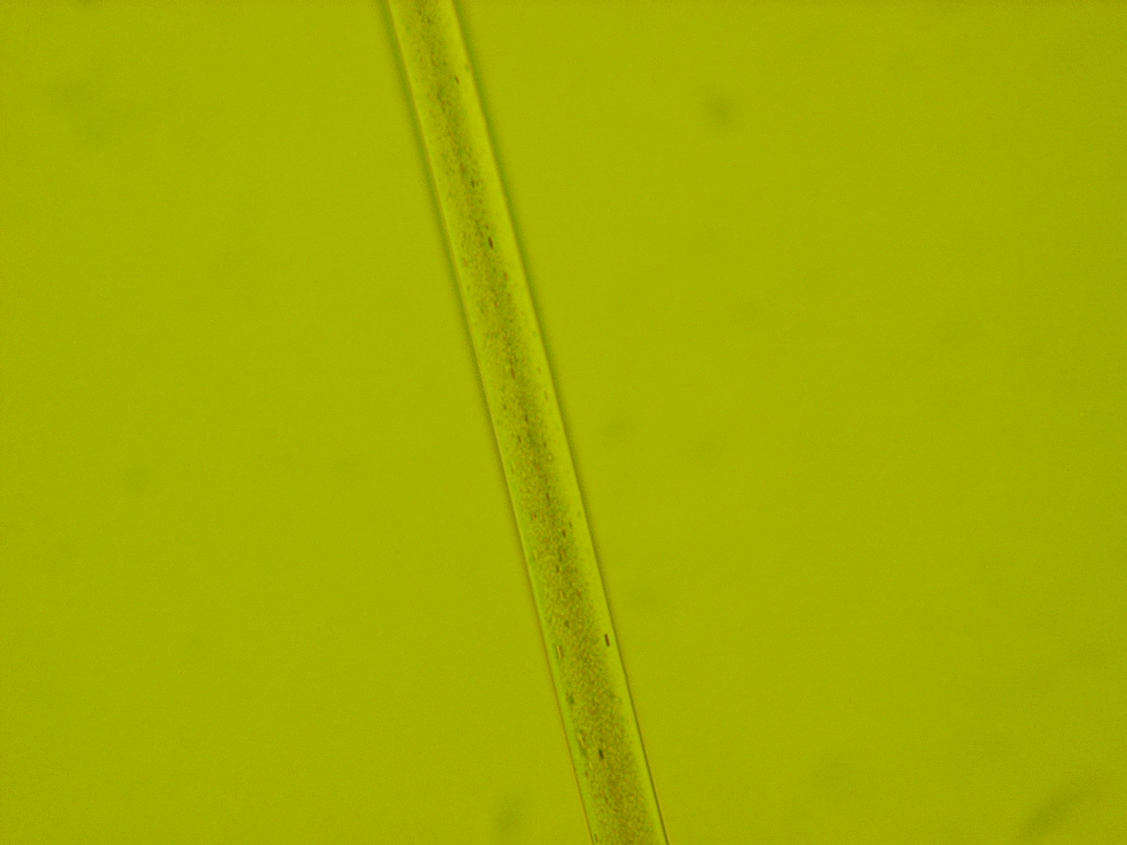 Rayon 40X Magnification Taken at Strathclyde University Forensic Science Department Taken By Edward Dowlman